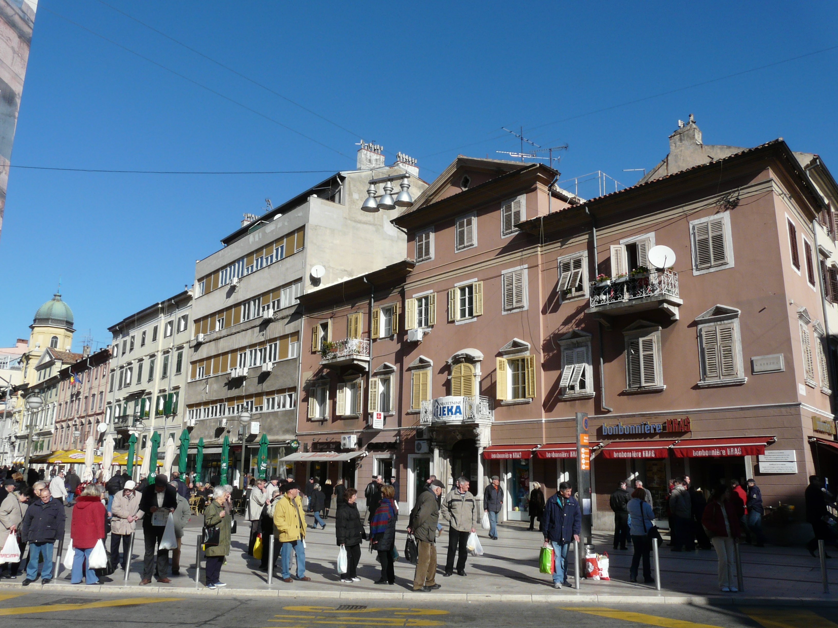 Building on Korzo str and Kula-Kolo. Здание в начале улицы Корзо и на площади Кула-Коло. Возможно адрес этого дома Корзо, 2. Anton Gnamb (?. – Риека, 1806.), riječki arhitekt i urbanist. Из его архитектурных произведений выделяется старый дворец губернатора (1780.), четырёх-крыльное здание с внутренним двором с аркадами, которые до 1896. находился на месте сегодняшнего дворца Адриатика. Построил ряд частных домов, как дворец Вукович из 1789. года (Корзо 2), а приписывают ему и дворец Wohinz (Корзо 8), а также дворец Adamić (1787.). Gnamb также принял участие в восстановлении замка в Kraljevici и ряда церквей в Приморье.